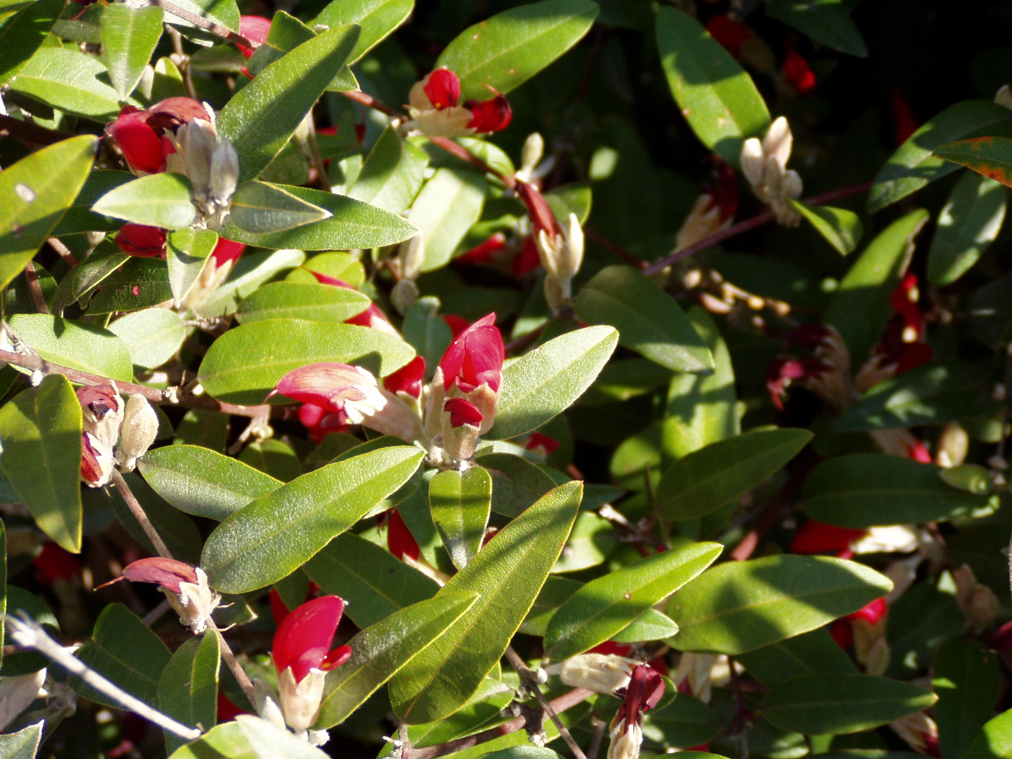 Description: Swan River Pea (Gastrolobium celsianum) Location: Australian National Botanic Gardens, Canberra, Australian Capital Territory, Australia Date: 2005-09-21 Source: picture taken by Danielle Langlois Licence: Released under GFDL and Creative Commons licenses by the photographer